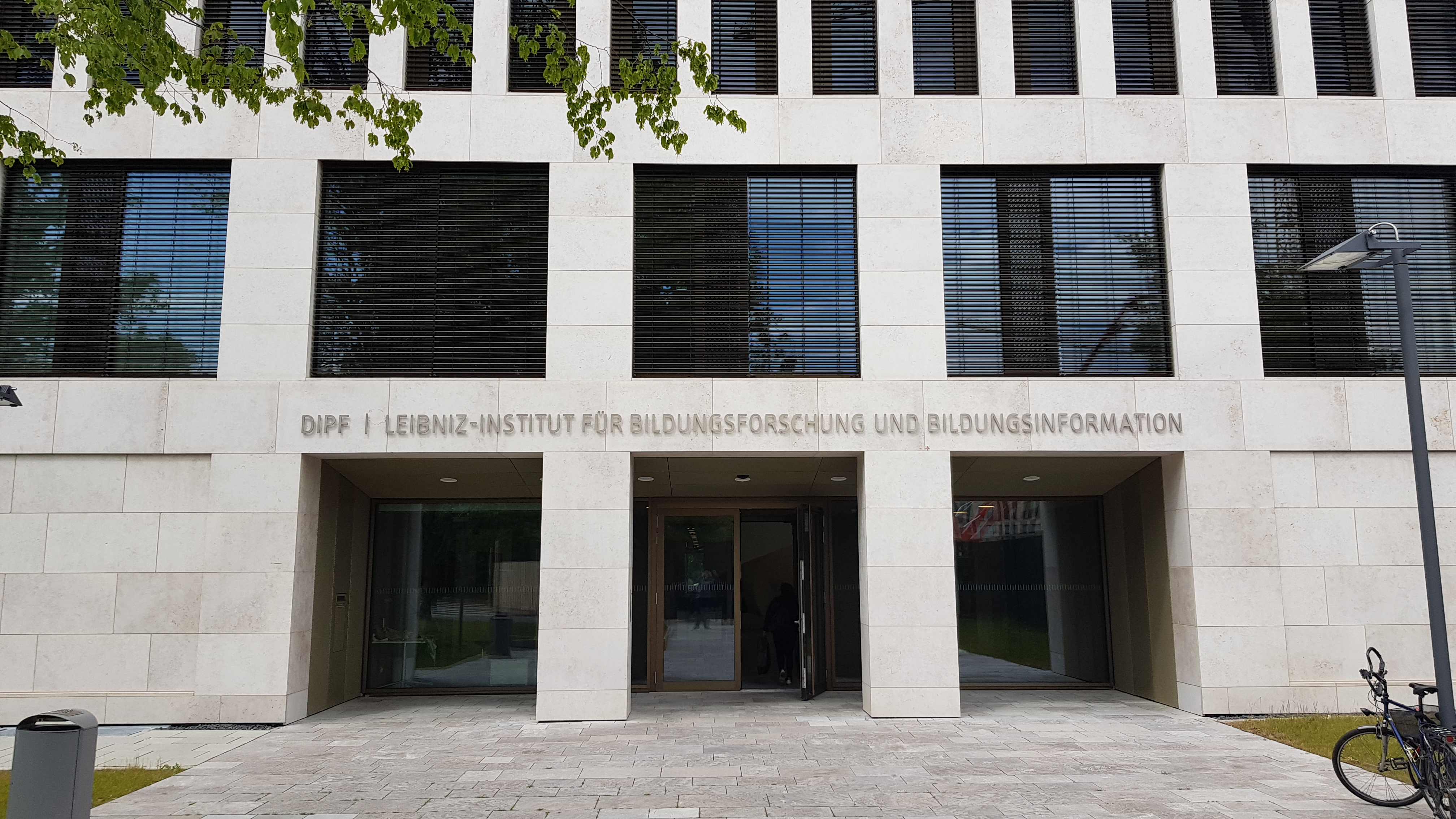 Entrance Leibniz-Instituts für Bildungsforschung und Bildungsinformation